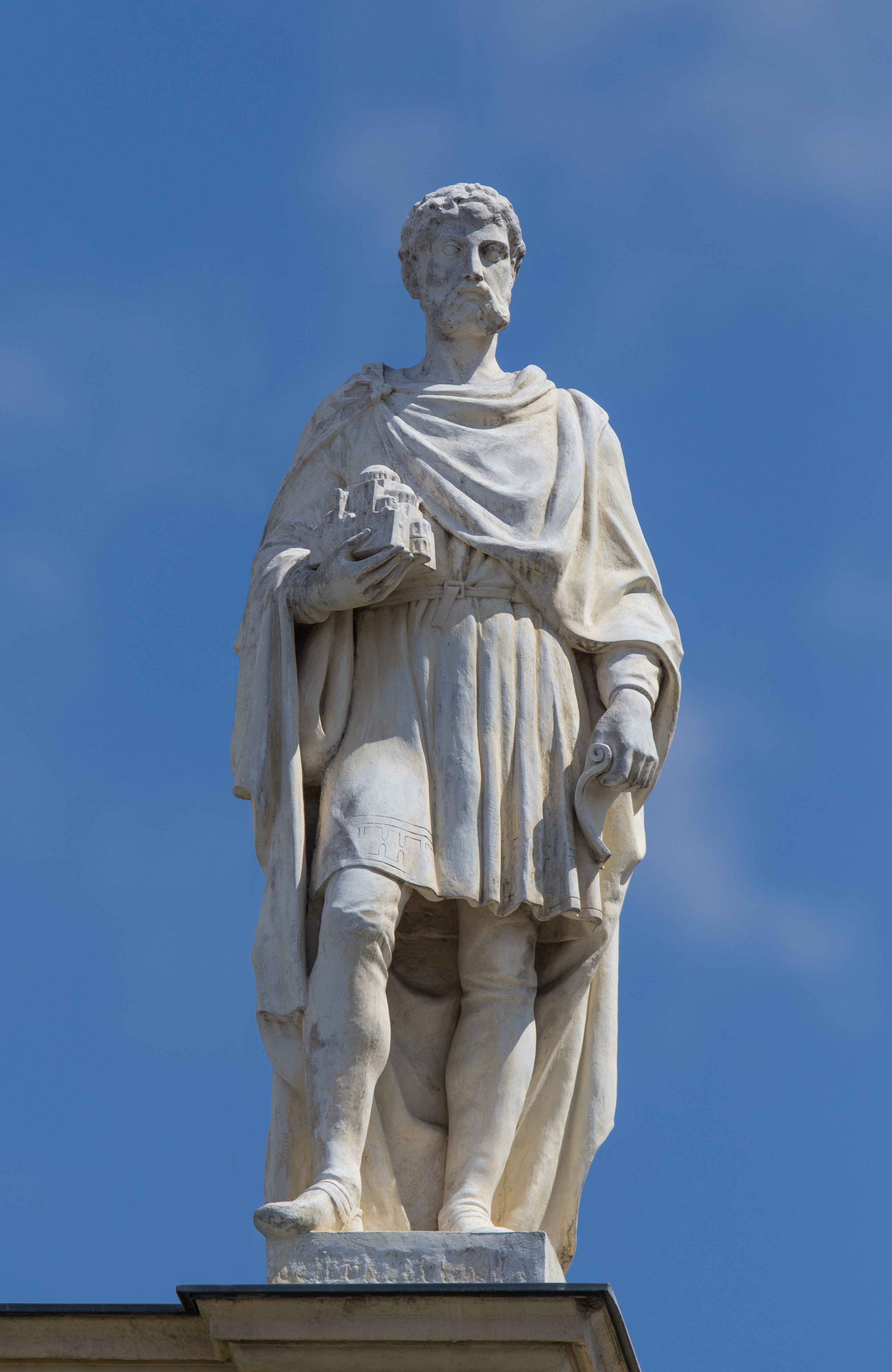 Kunsthistorisches Museum in Vienna Figures on the roof The making of this work was supported by Wikimedia Austria. For other files made with the support of Wikimedia Austria, please see the category Supported by Wikimedia Österreich.